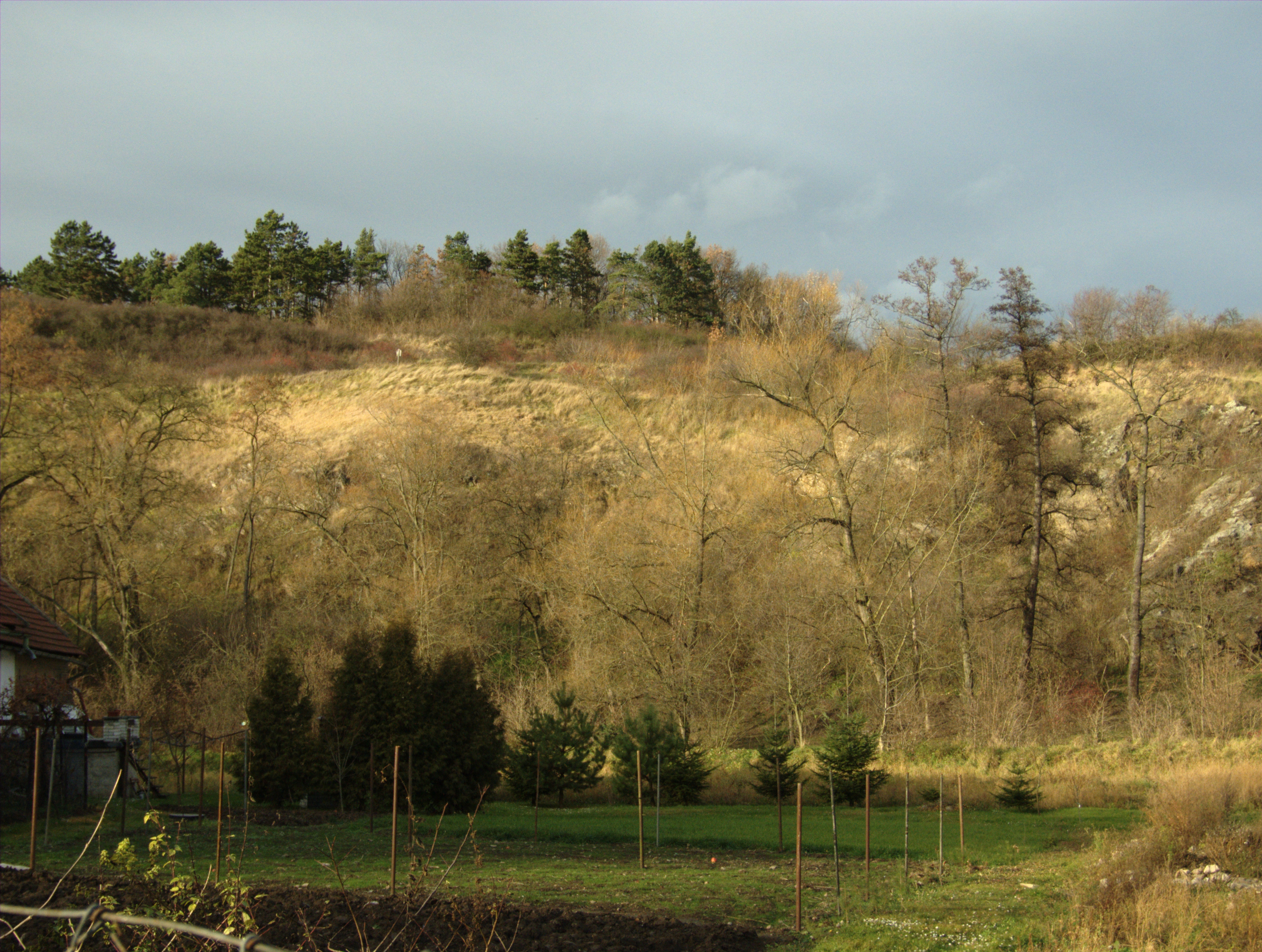 Nature reserve Stráň u Chroustova (Chroustov slope) near the town of Radim, Central Bohemian Region, CZ This photograph was taken within the scope of the third year of the 'Czech Municipalities Photographs' grant.